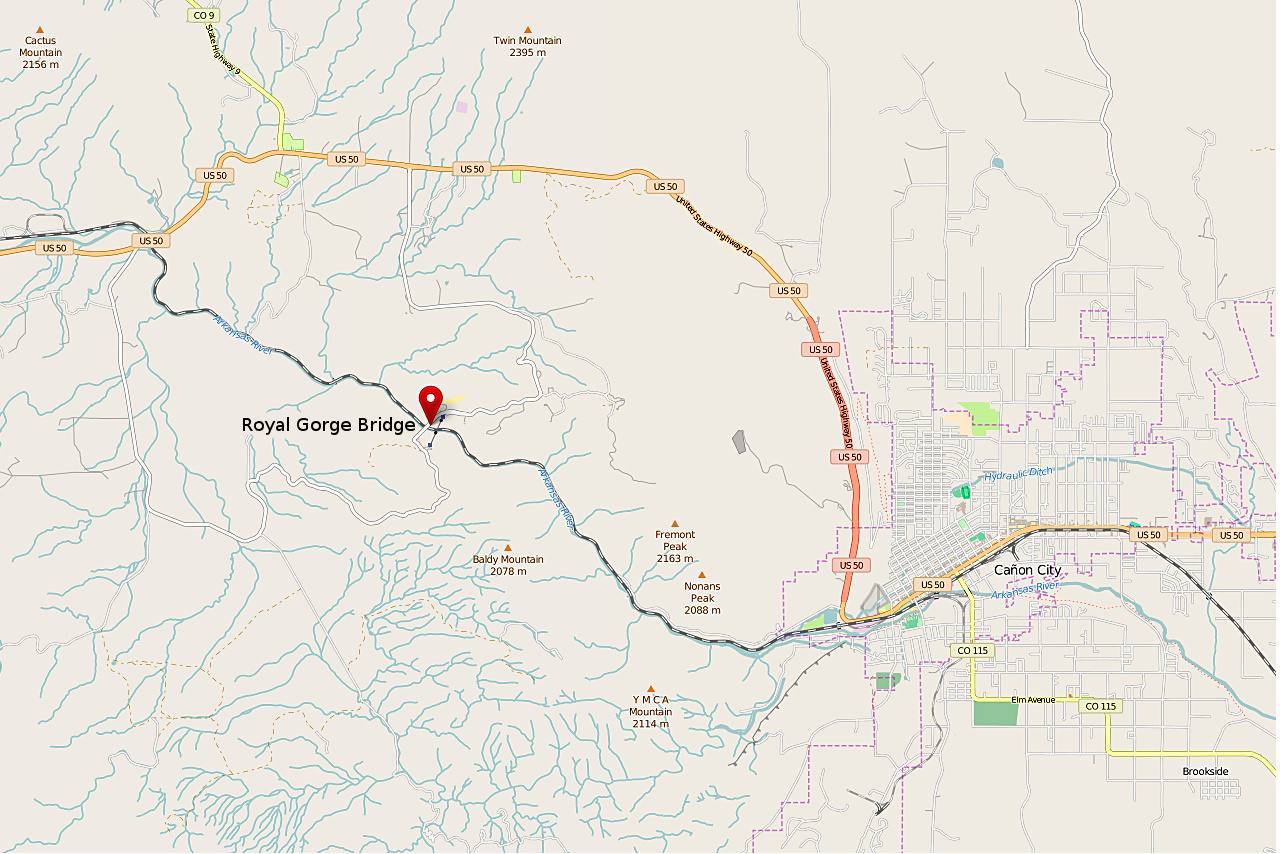 Map showing Royal Gorge Bridge and local surrounding area including Cañon City, Colorado. A copy from OpenStreetMaps that has been cropped and slightly sharpened along with brightness, contrast and color saturation adjustments. "Royal Gorge Bridge" text was added by the pushpin. This map of Royal Gorge, Colorado was created from OpenStreetMap project data, collected by the community. This map may be incomplete, and may contain errors. Don't rely solely on it for navigation.